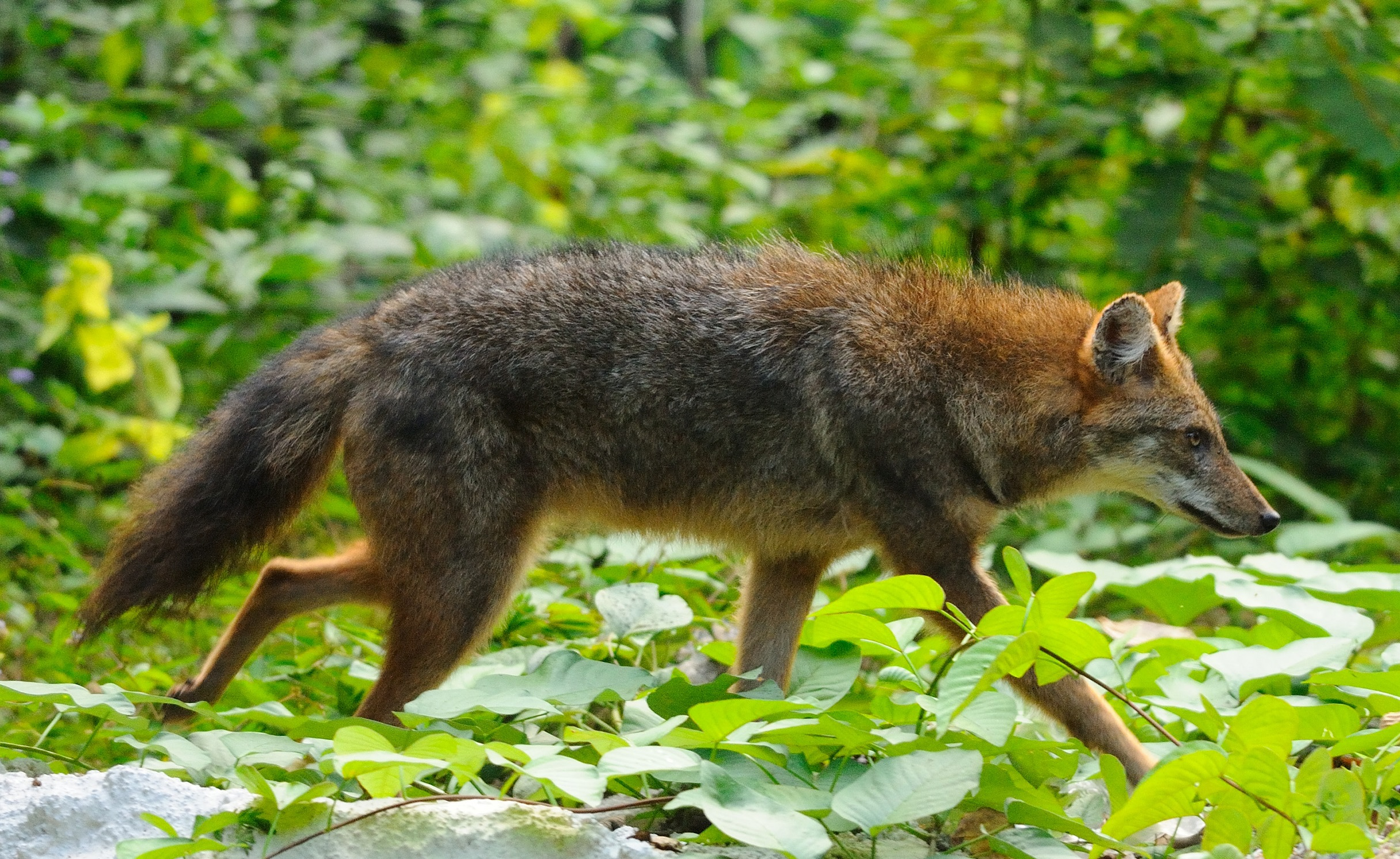 Golden Jackal, Canis aureus in Kaeng Krachan national park